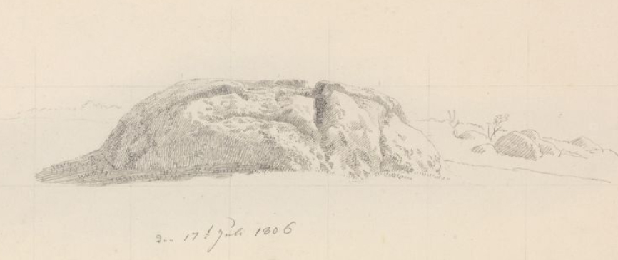 Opferstein at Quoltitz, drawing